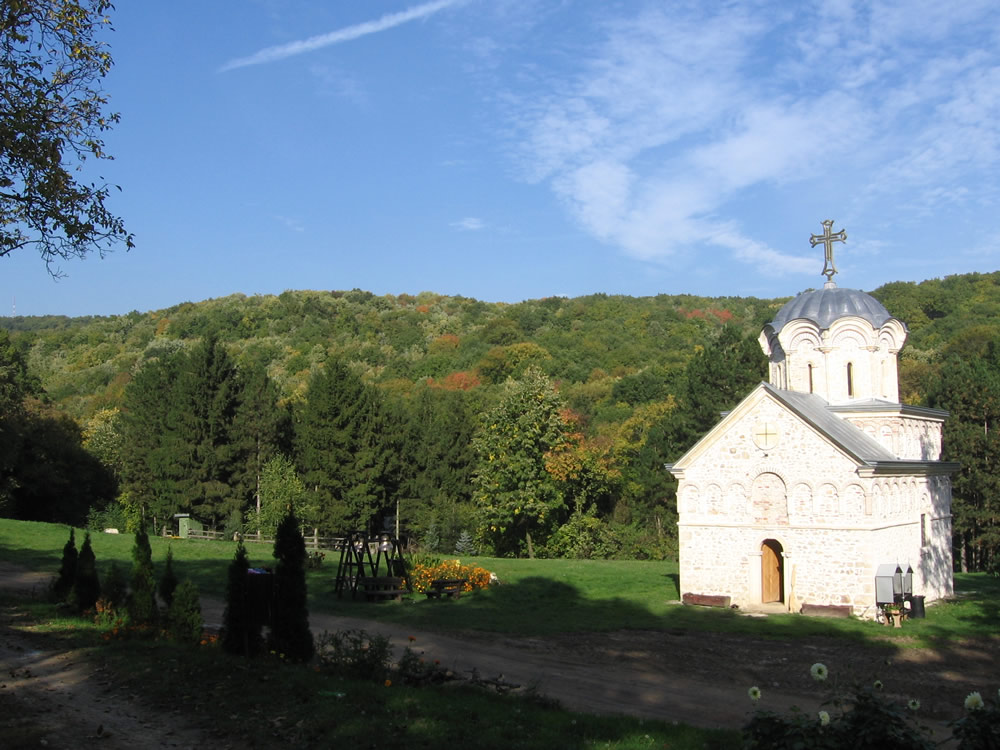 Staro Hopovo monastery on Fruska Gora, Serbia.